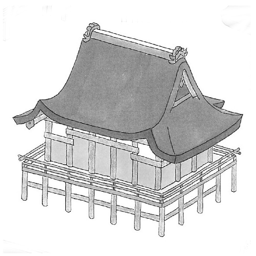 Japanese shrine type Hie (backside)